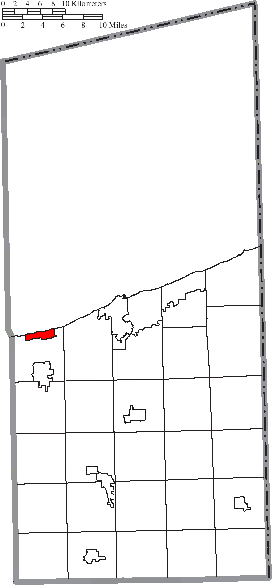 Map of the municipal and township boundaries of Ashtabula County, Ohio, United States, as of the 2000 census, with the location of the village of Geneva-on-the-Lake highlighted. Township borders are shown only in unincorporated areas in order to differentiate incorporated and unincorporated areas more clearly.